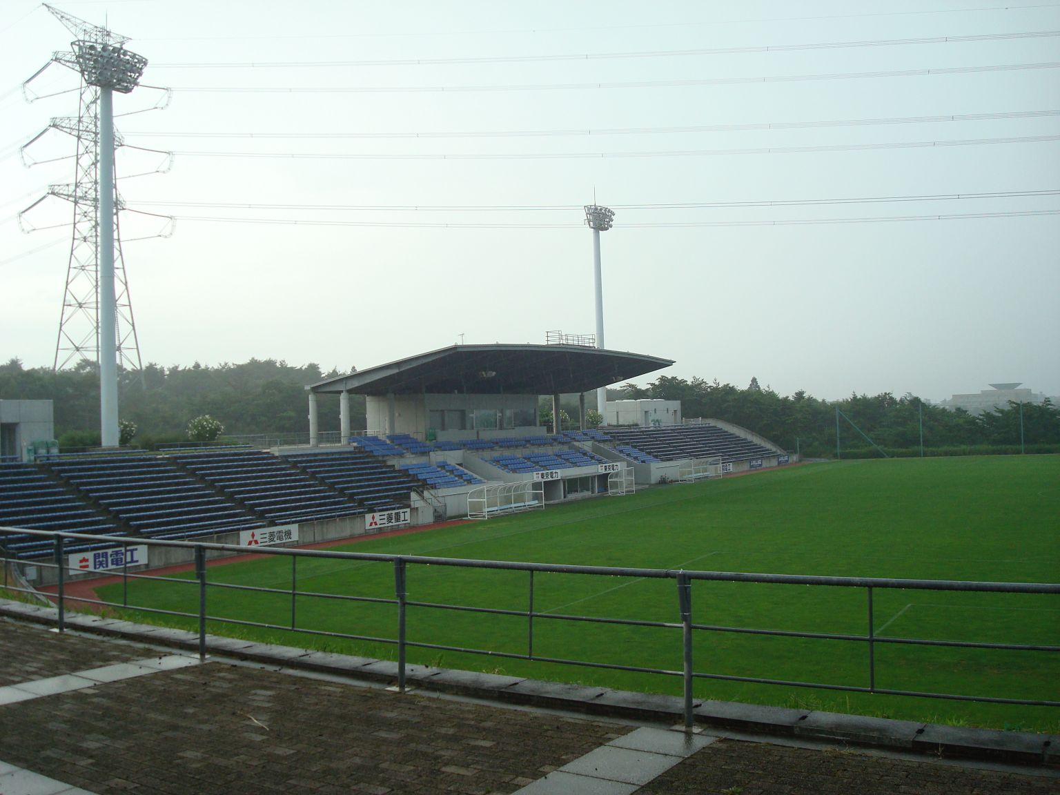 J-Village stadium at Hirono, Fukushima, Japan. It is the home ground for women's football team TEPCO Mareeze and accommodates 5,000.